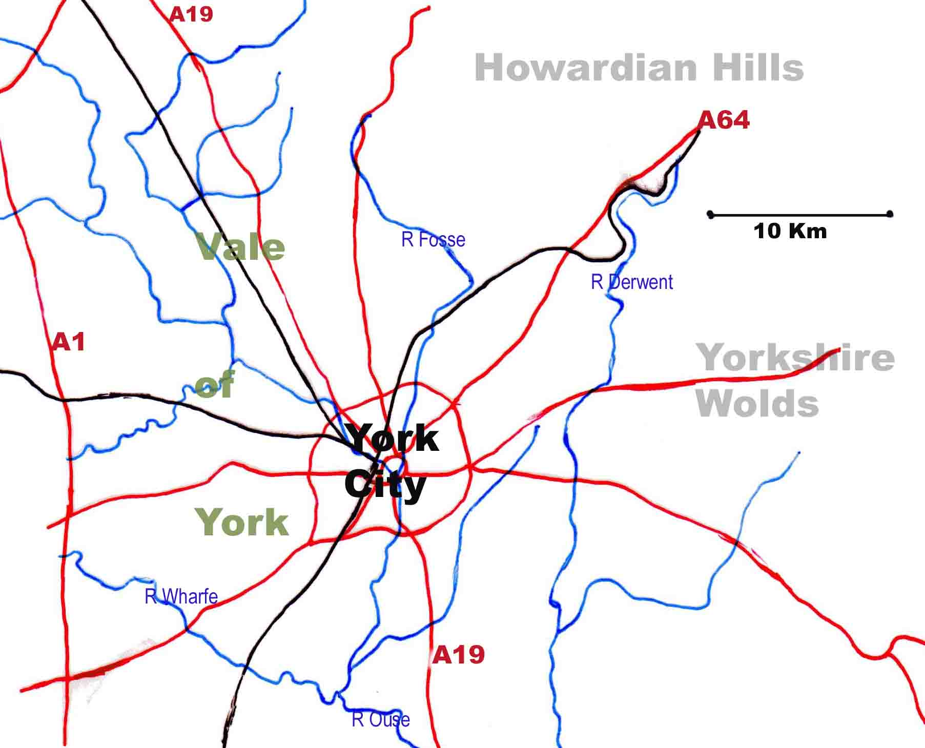 Image Notes